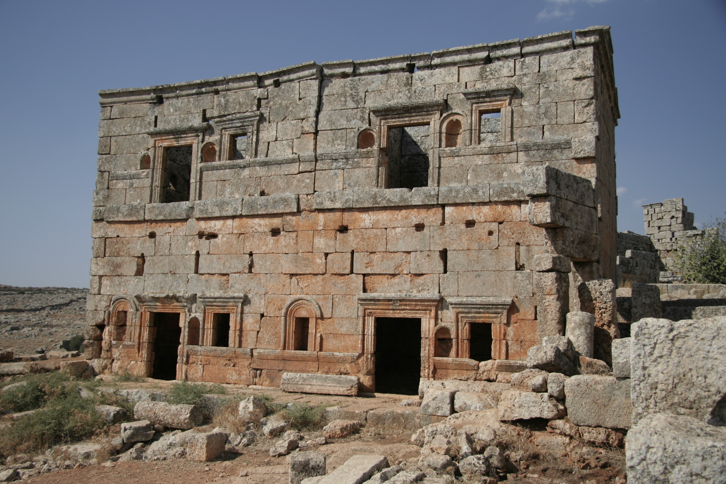 One of the left over buildings in Serjilla.